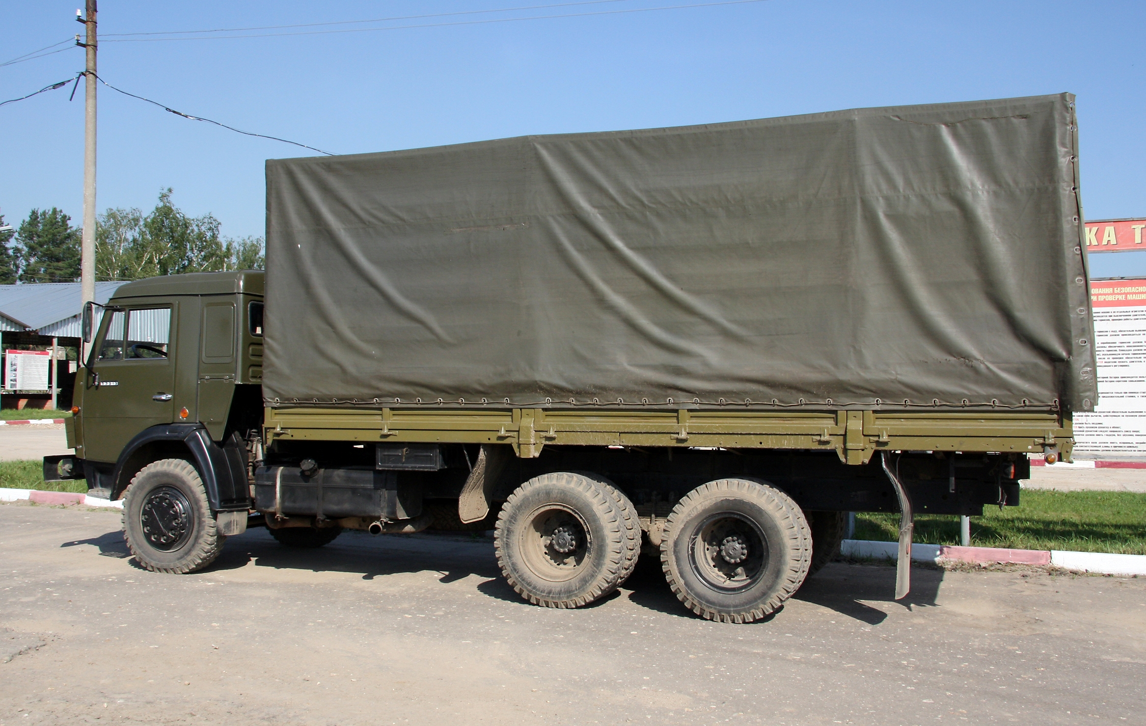 The 45th Separate Engineer-Camouflage Regiment of Russia.